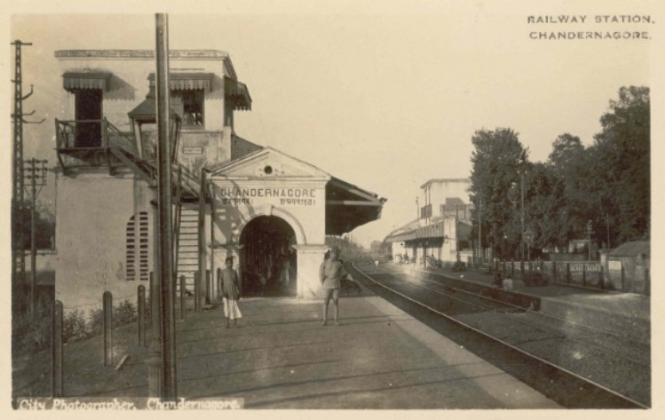 Chandernagore train station. The railway line and the station were inside British India, just meters outside the boundary of the tiny 9 square km French enclave, part of French India. Located some 25 miles north of Calcutta on the Hoogly River, tiny Chandernagore with its 26,500 inhabitants in 1918 had virtually become a suburb of Calcutta by then and the French presence was almost nonexistent. Postcard c. 1910-1920.